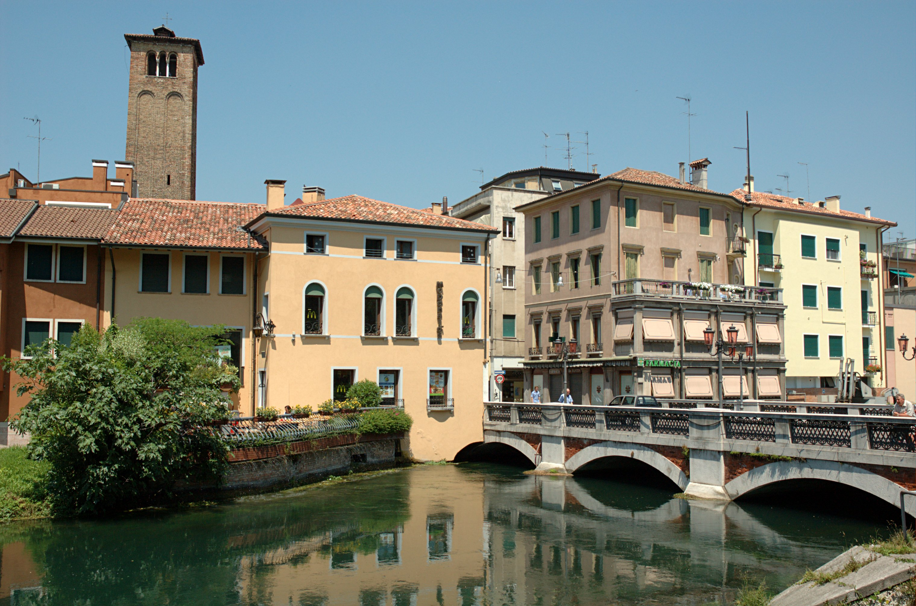 A bridge on the Sile channel in Treviso